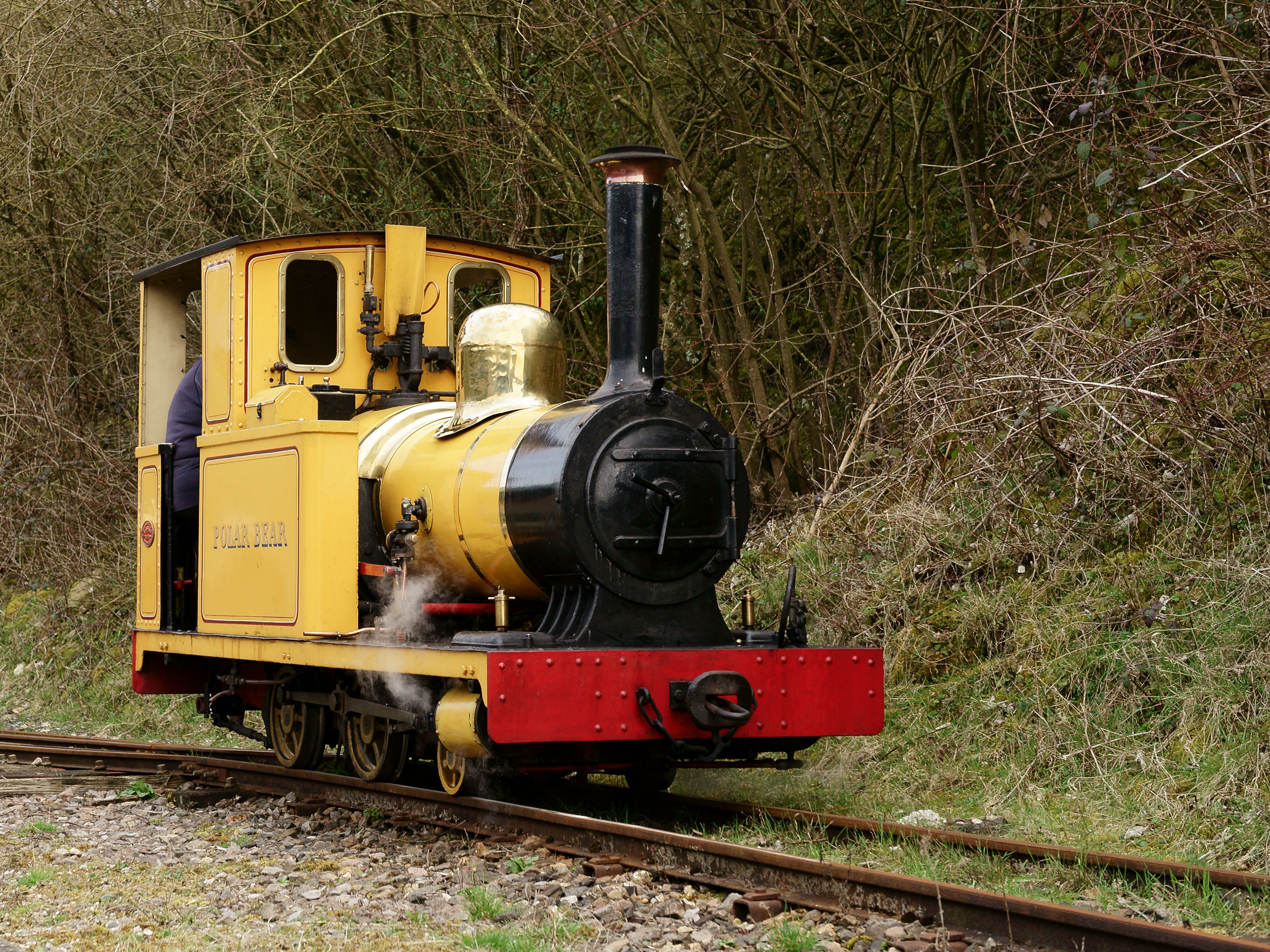 Polar Bear, a W. G. Bagnall 2-4-0 steam locomotive on the Amberley Museum Railway. It was built in 1905 for the Groudle Glen Railway, and remained in service until 1962. Between several overhauls and restorations, Polar Bear returned to service in the 1980s, the mid-1990s, 2005 and 2013–present.